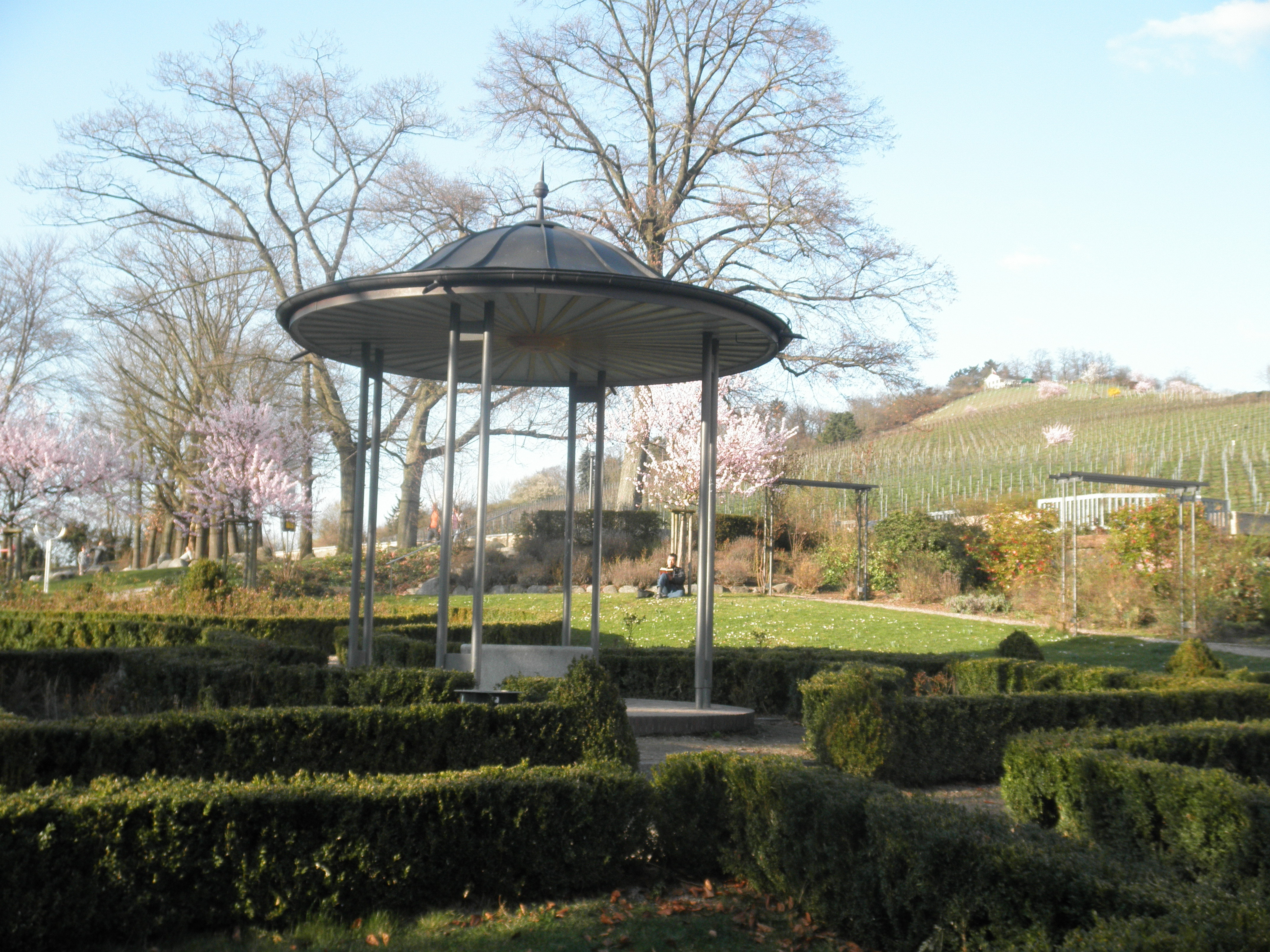 The park territory Stadtpark Bensheim (Germany) in spring 2011